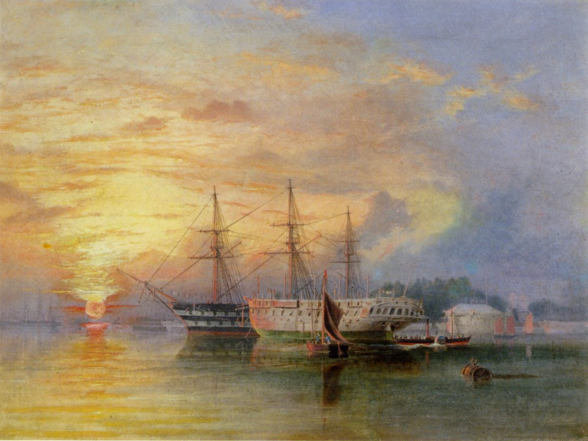 The St George and the Arethusa on the Hamoaze near Bull Point, signed l.r.: Edwd Snell/ The St George, and Arethusa/ on the Hamoaze near Bull Point. Jan 1860, with paddle tug Fairy oil on canvas 44.5 by 59.5 cm., 17 1/2 by 23 1/3 in.